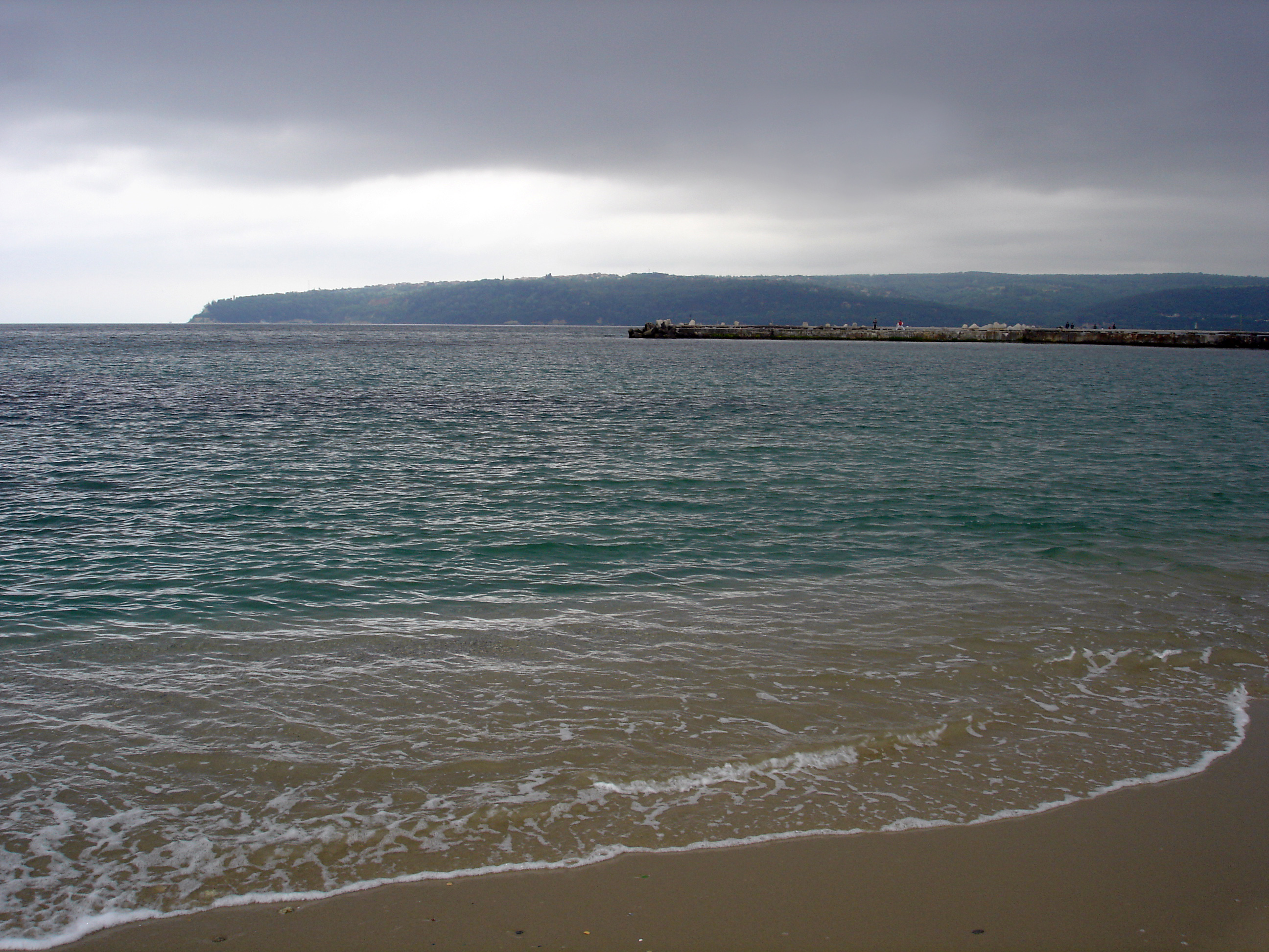 Cate Galata in the Black Sea near Varna, Bulgaria